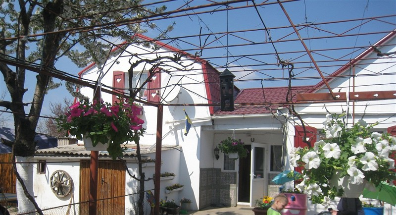 The family home Novy Dom in Reni in the Odessa region in Ukraine, for abandoned or abused children, run by Barnens Hopp ("Children's hope") in Sollentuna, Sweden.